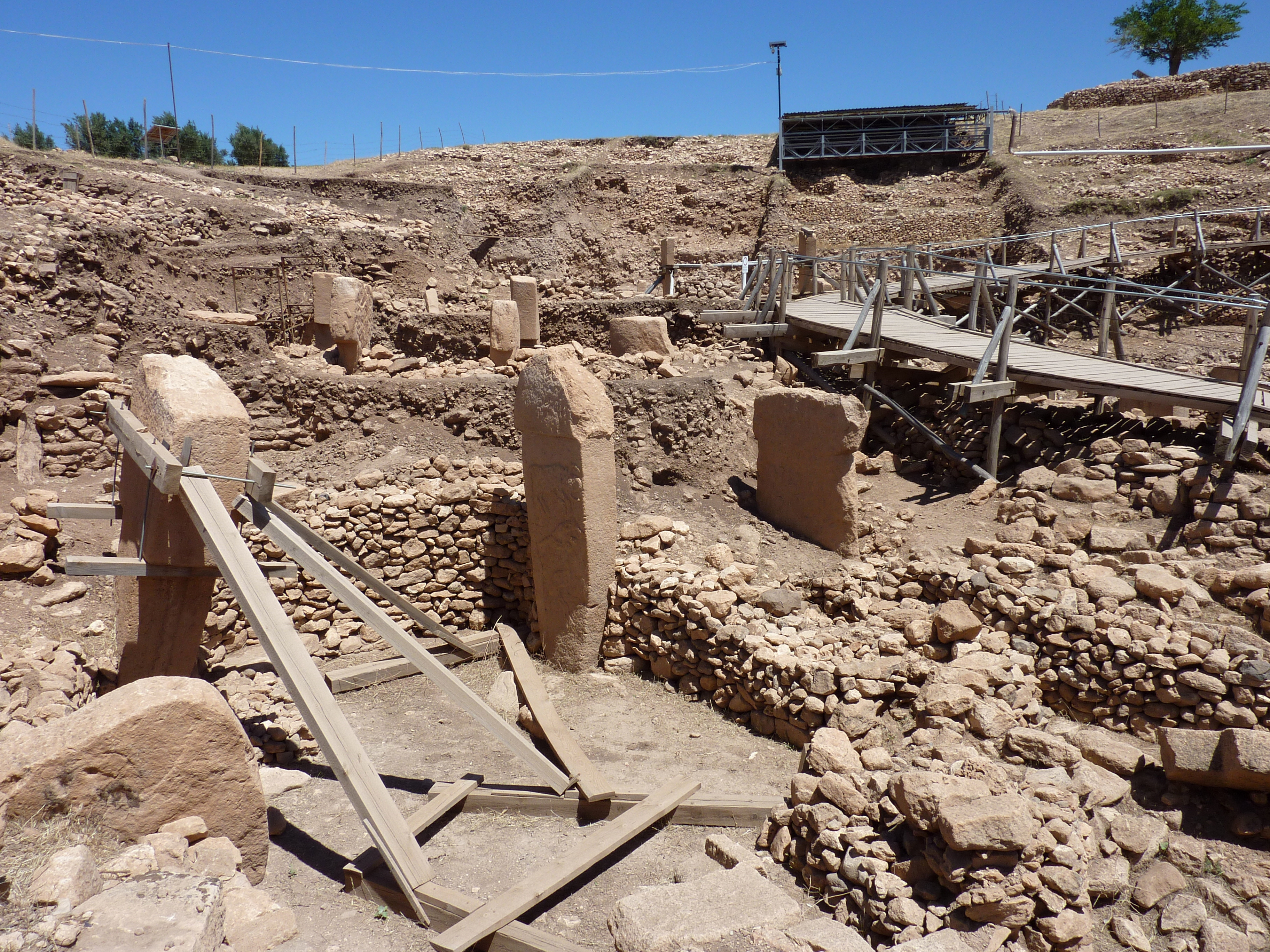 Göbekli Tepe site (2)